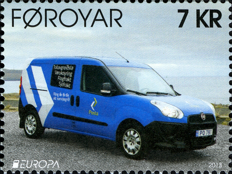 Stamps of the Faroe Islands-2013